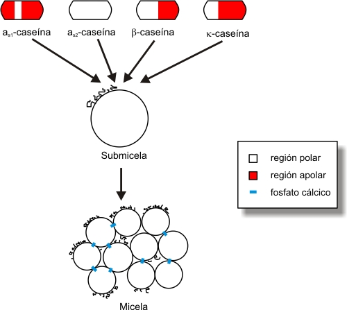 Micelles of casin